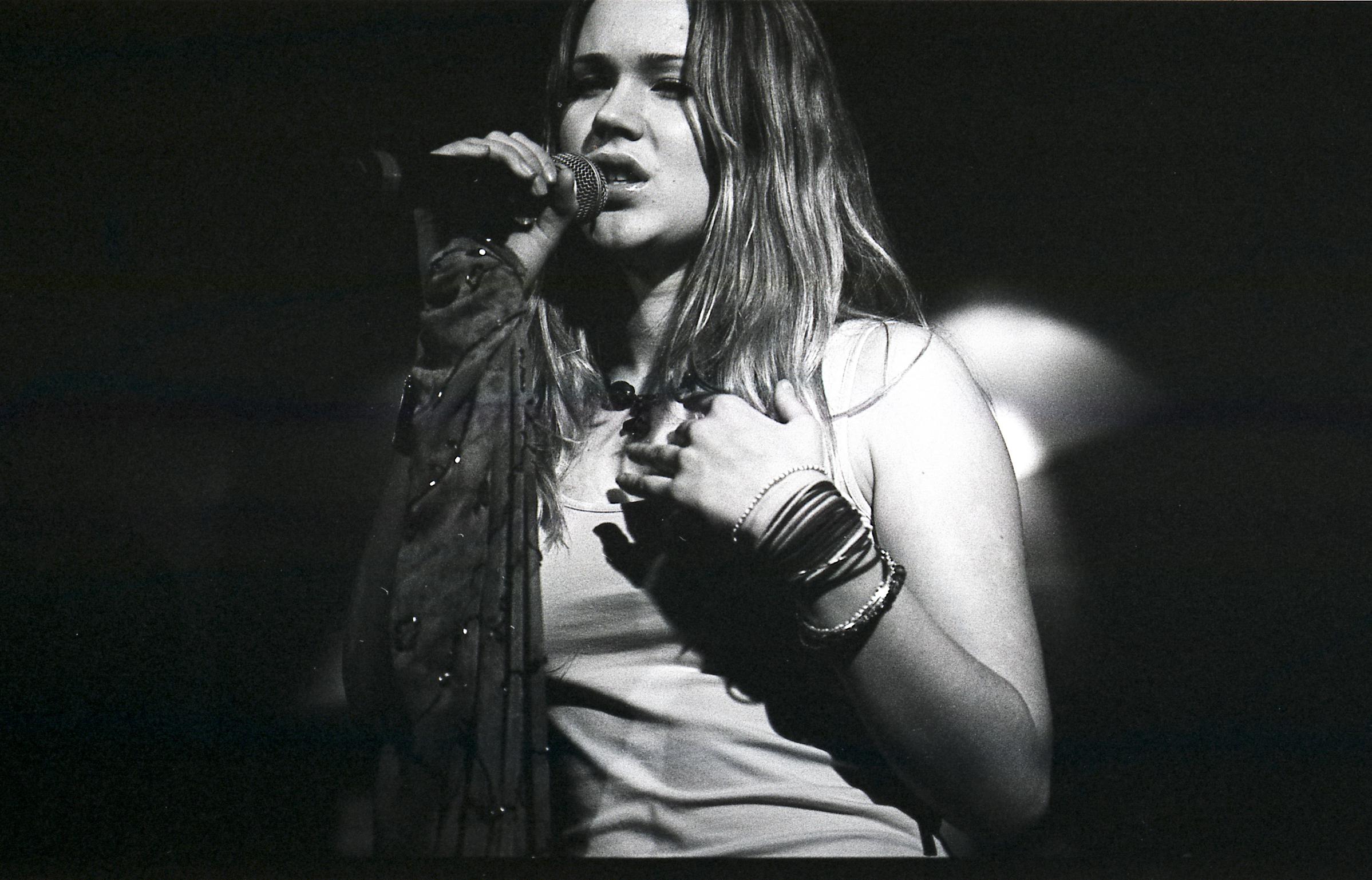 Joss Stone, at Salumeria della Musica, Milan, in 2005.